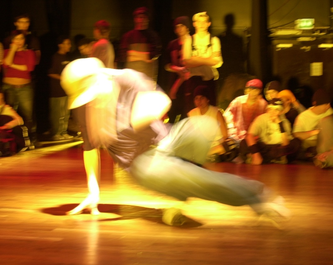 Classic downrock, probably a 6-step, performed by unknown in Kulturhuset, Stockholm